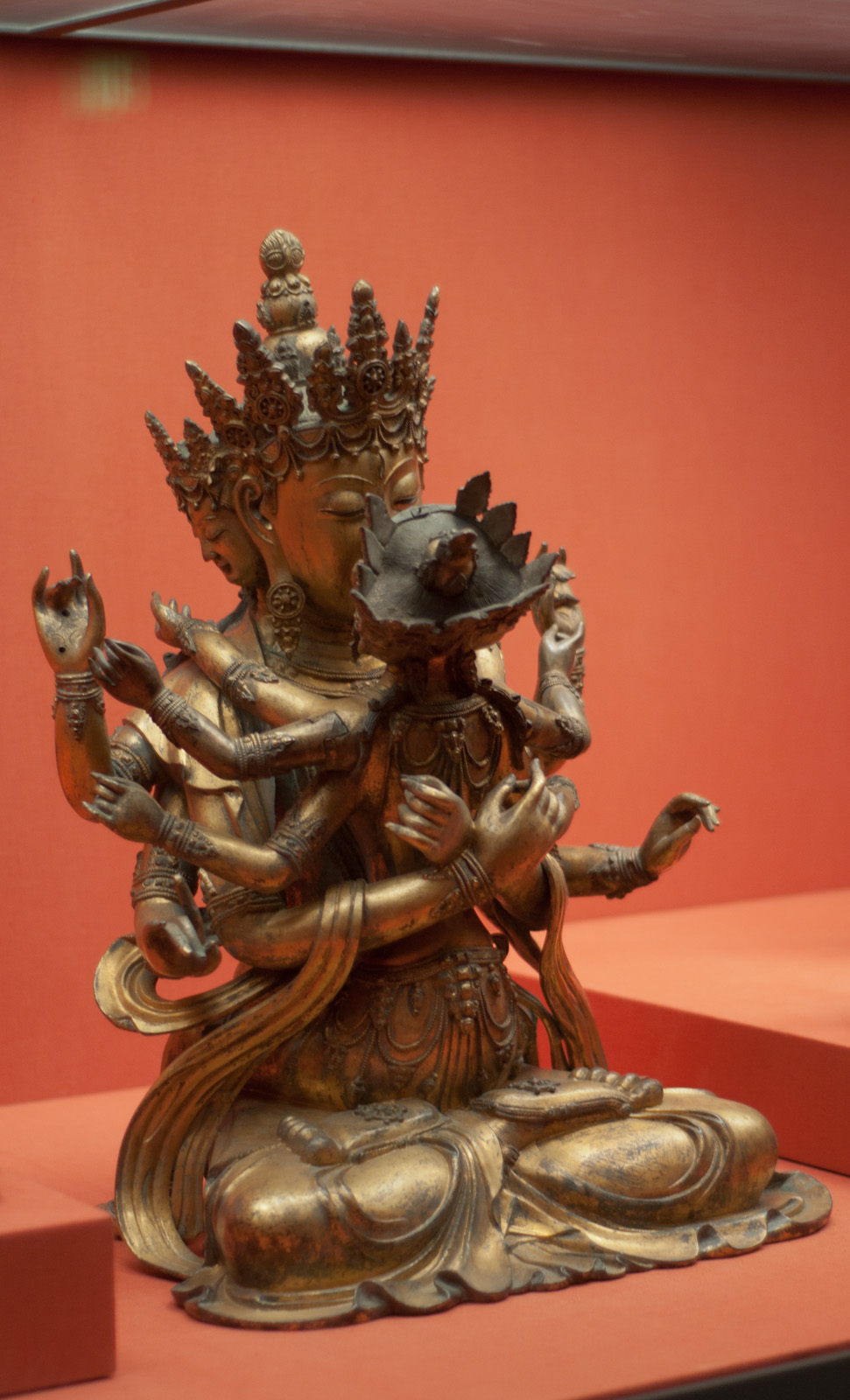 This copulation-shaped statue is Guhyasamaja, which stands for the principle of "union of all secrets" from many different sources. (Hence the copulation scheme.)